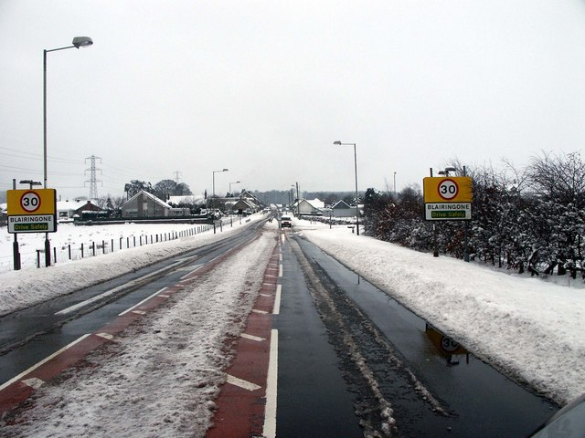 Blairingone. One street town. A977. One way in and one way out. That is if you ignore the C road.